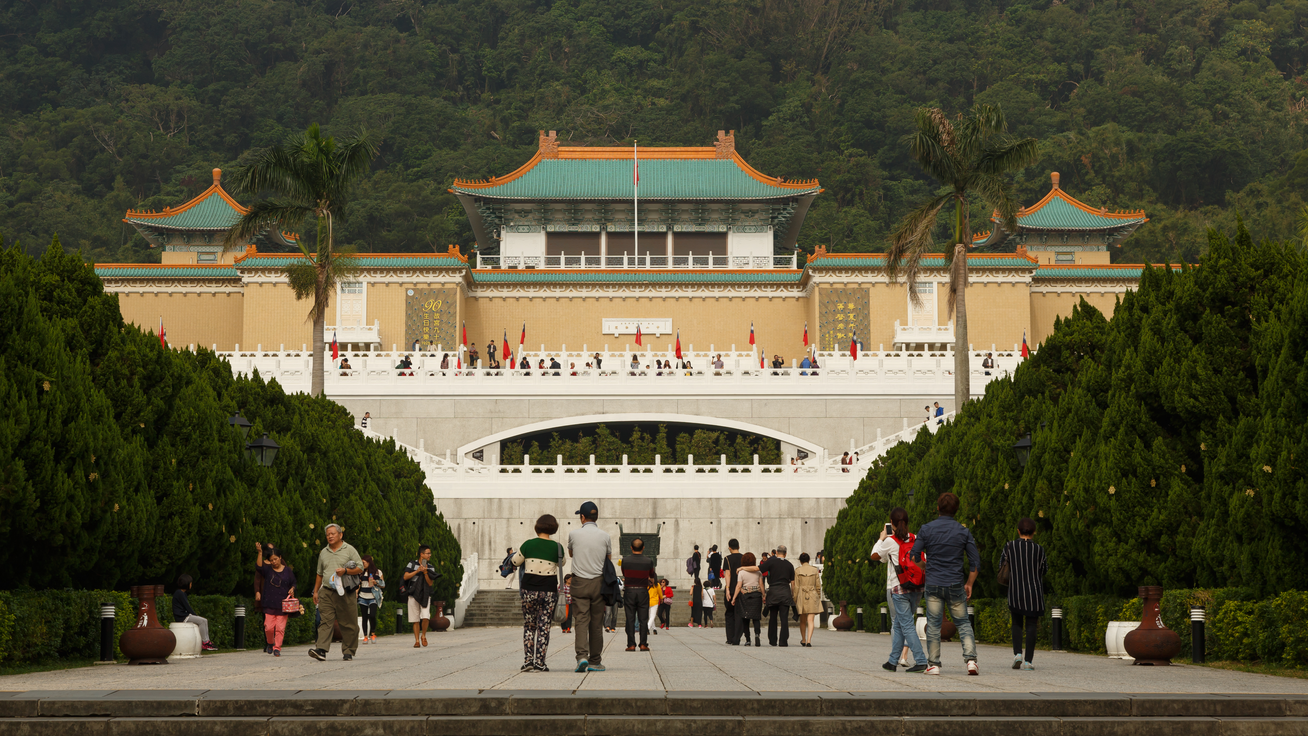 Taipei, Taiwan: National Palace Museum